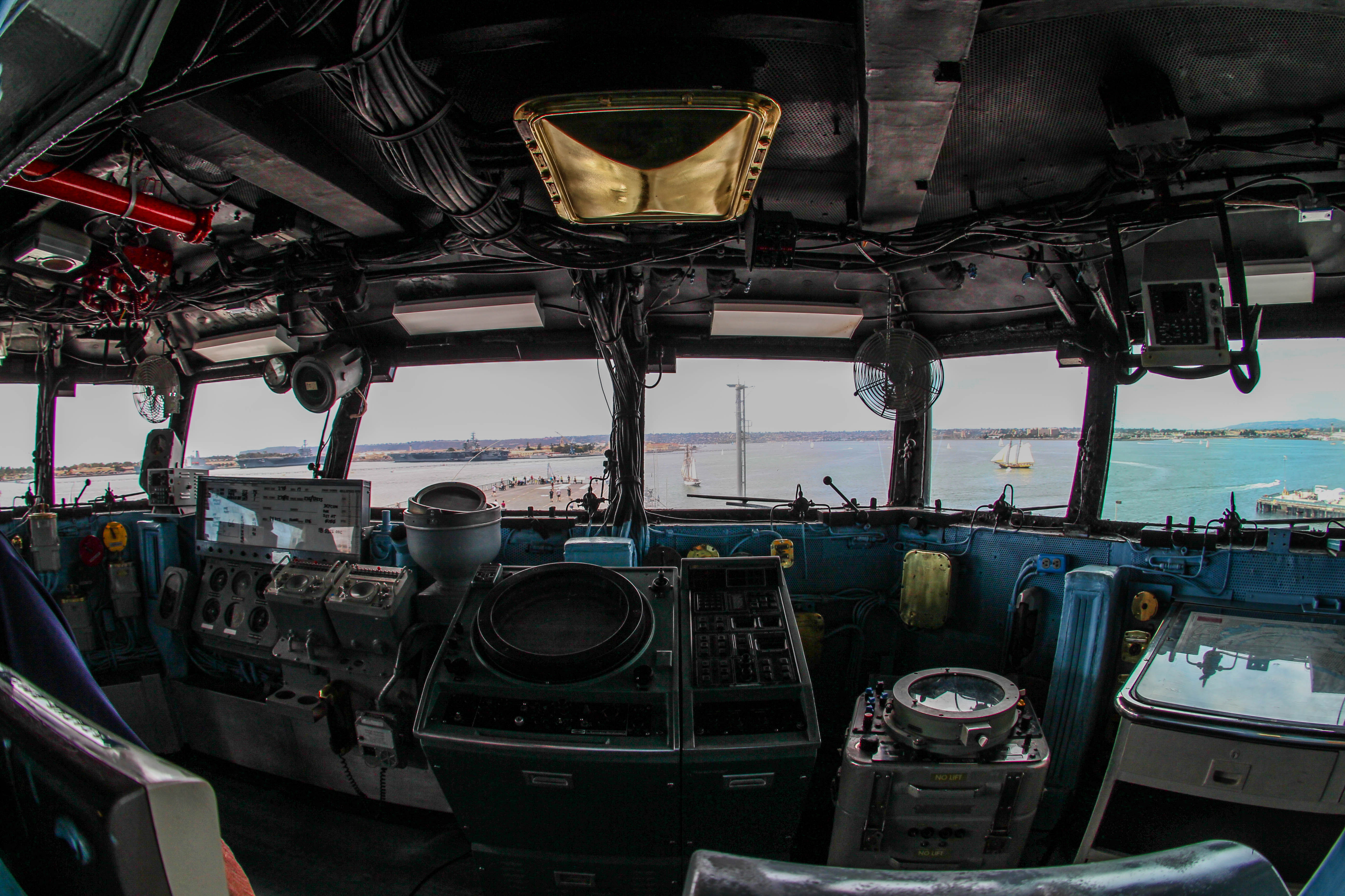 The view from the Bridge of the USS Midway.